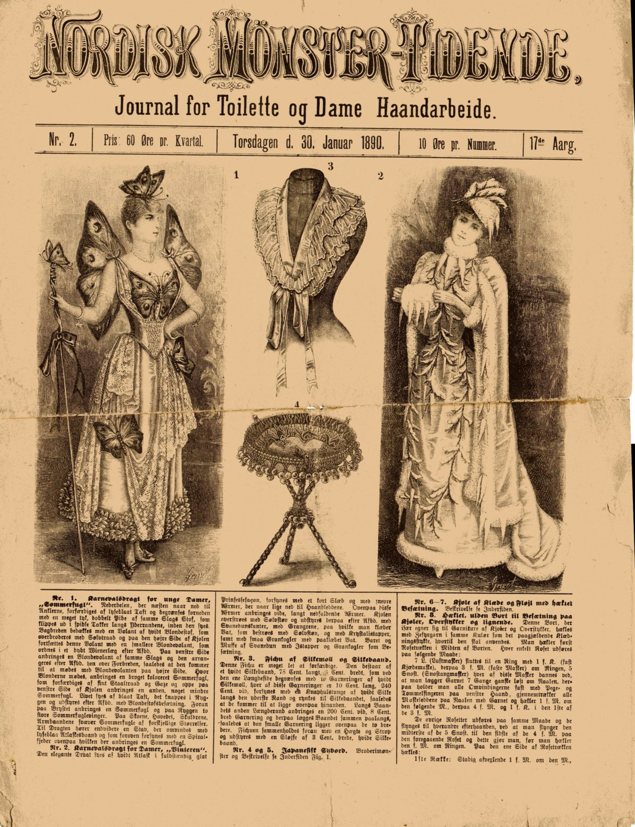 Cover of the Swedish edition of Nordisk Mönster Tidende from 30 January 1890.